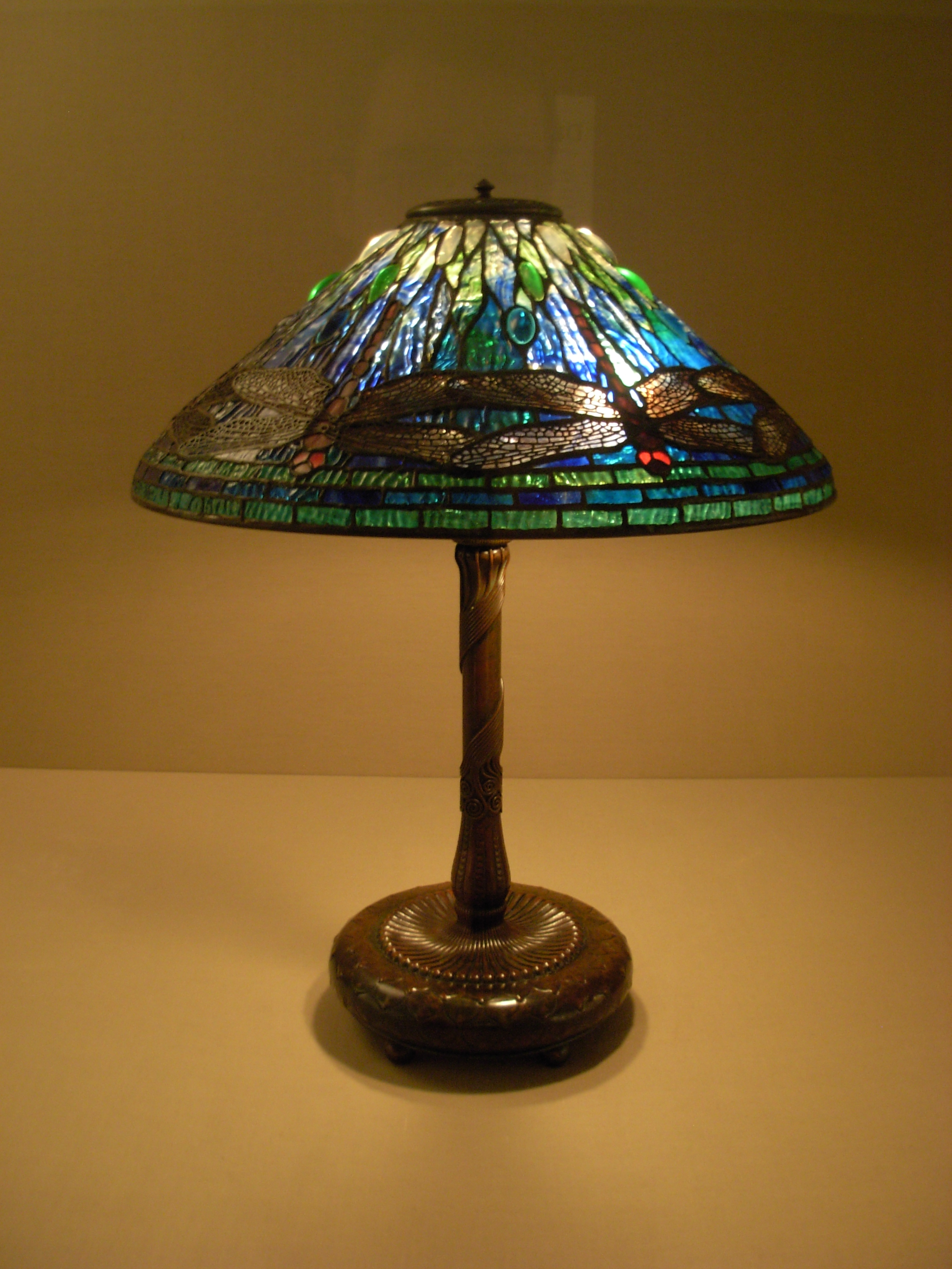 Table lamp, c. 1899-1902, Tiffany Studios, Tiffany Glass and Decorating Comapny